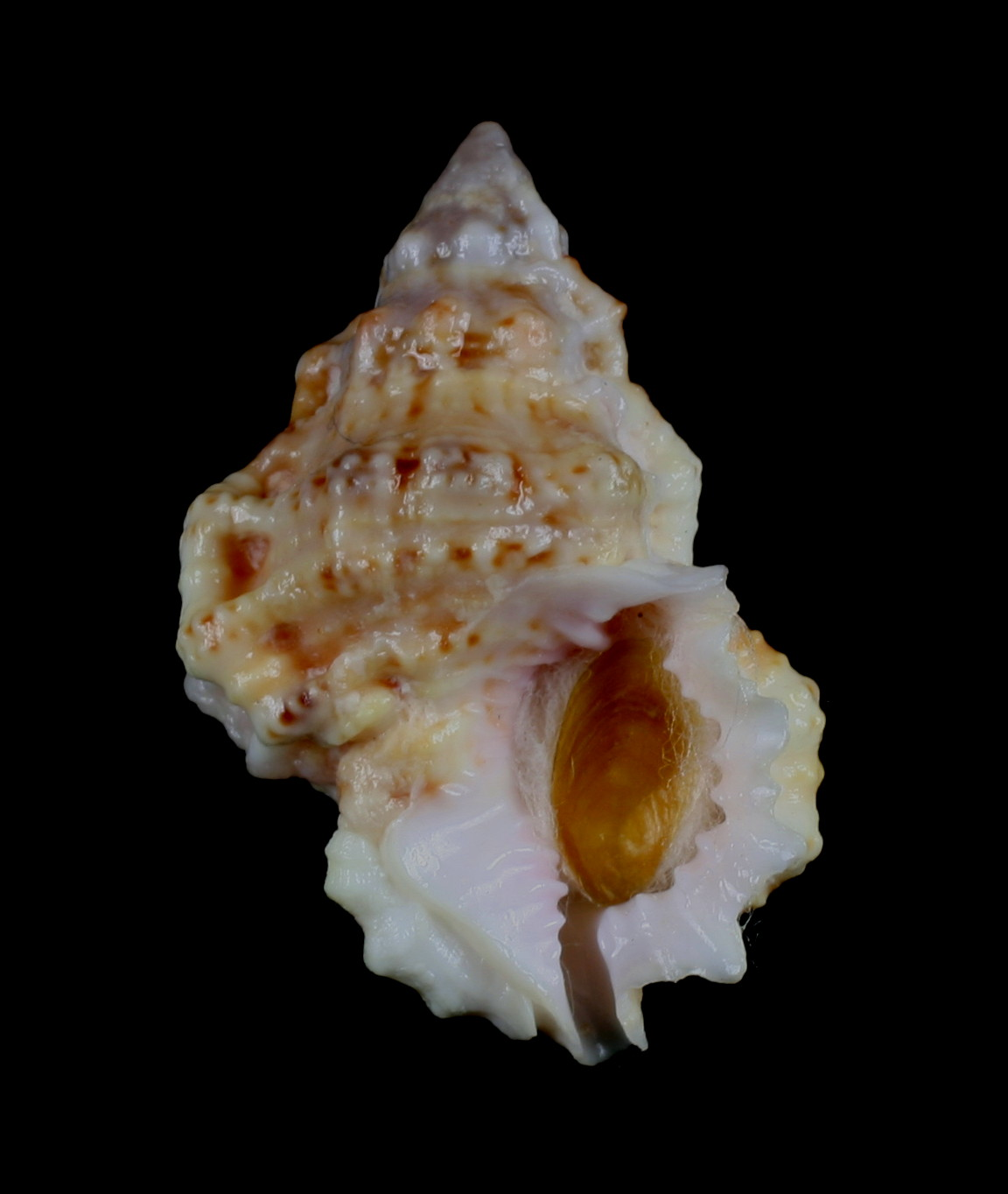 Bursidae: Bursa rhodostoma thomae (d’Orbigny, 1847)